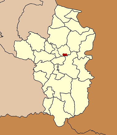 Tansum